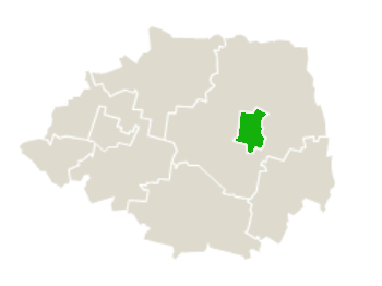 Outline Map of Bielsk Podlaskie (Town).